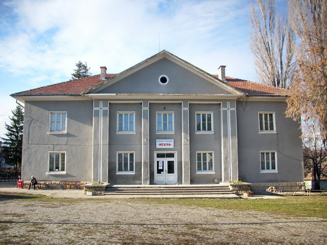 The library of village Palamartsa, Bulgaria